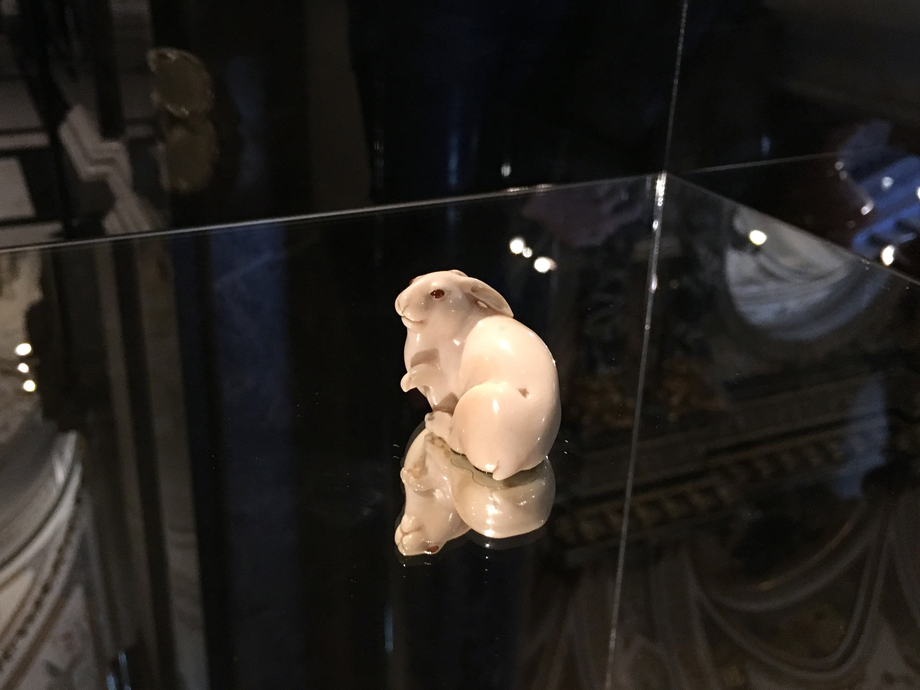 The Hare with Amber Eyes. Netsuke. Masatoshi, Osaka, ca. 1880, signed. Ivory, amber buffalo horn. Former Ephrussi Collection, today descendant Edmund de Waal. Shown at a special exhibition in November 2016 with Edmund de Waal at the Kunsthistorisches Museum in Vienna.